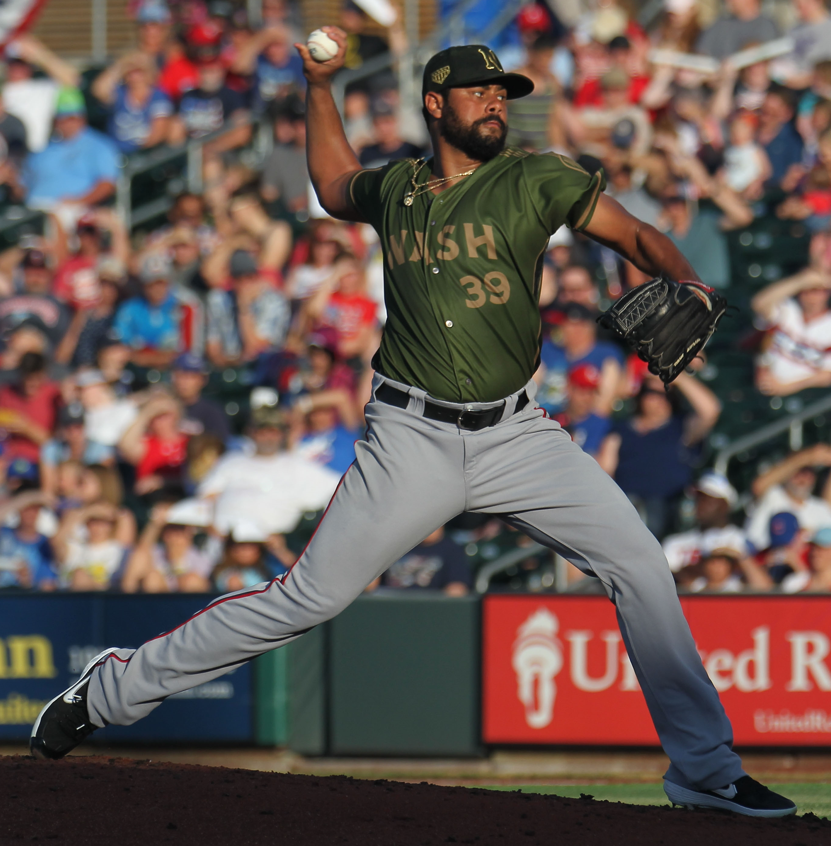 Minda Haas Kuhlmann | 2019 USAGE INSTRUCTIONS: You are welcome to share or publish to your own site or social media account, but you MUST credit me, Minda Haas Kuhlmann. Twitter: @minda33. Instagram: minda.haas